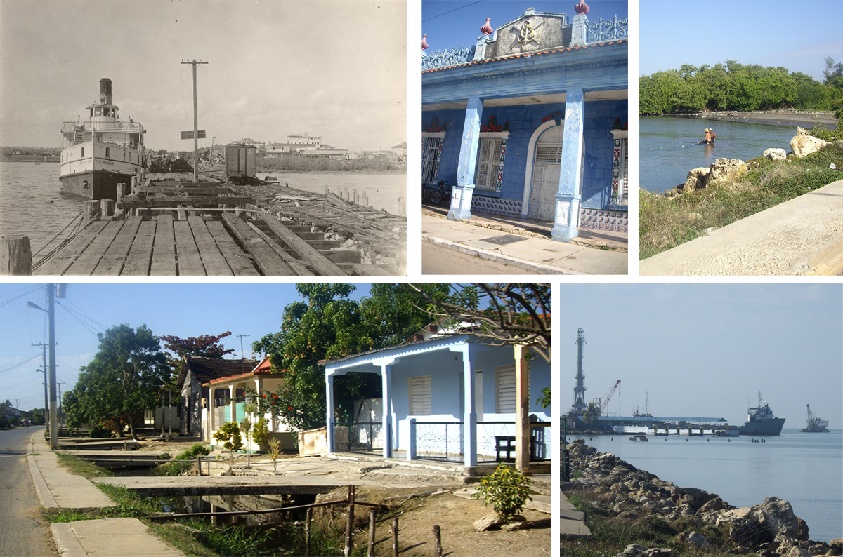 Collage of images of Batabanó from Wikipedia Commons